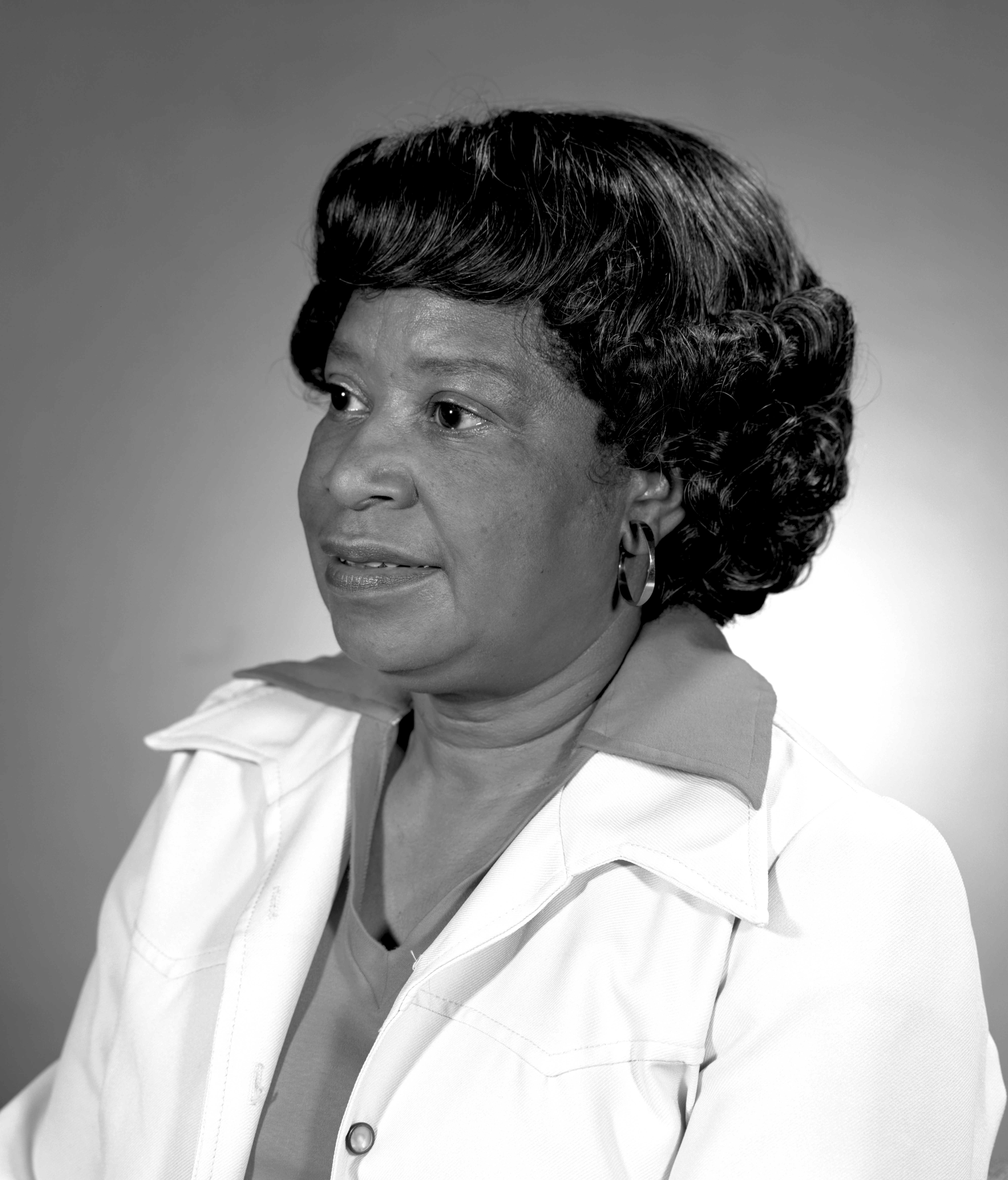 Portrait of Mary Jackson. 2017 Hall of Honor inductee. Langley Research Center NACA and NASA Hall of Honor. In honor and recognition of the ambition and motivation that enabled her career progression from human computer to NASA s first Afican-American female engineer, and subsequent career supporting the hiring and promotion of other deserving female and minority employees.